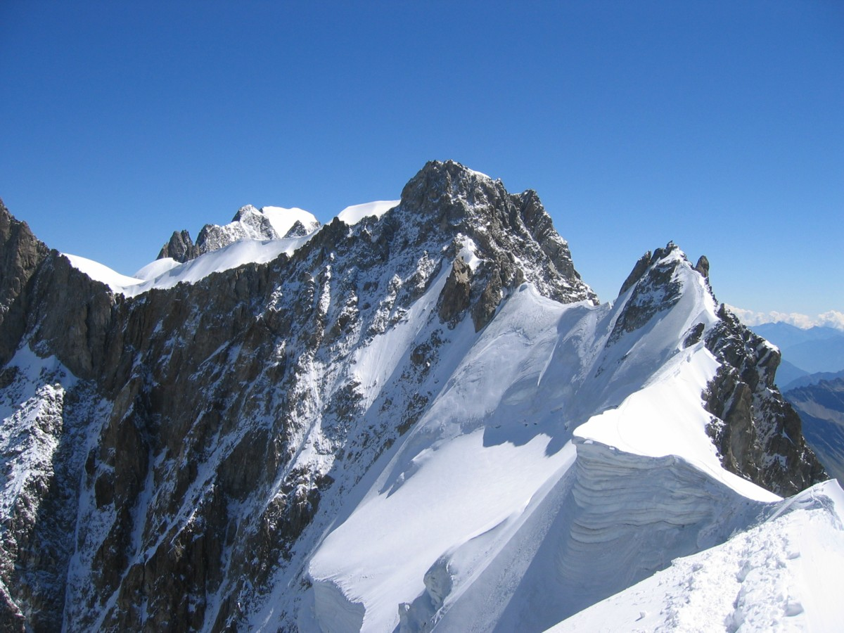 Aiguille de Rochefort, Mont Blanc Massif, Graian Alps. View from saddle underneath Dent du Géant over the first part of Rochefort Ridge. In the background the summit of Grandes Jorasses.